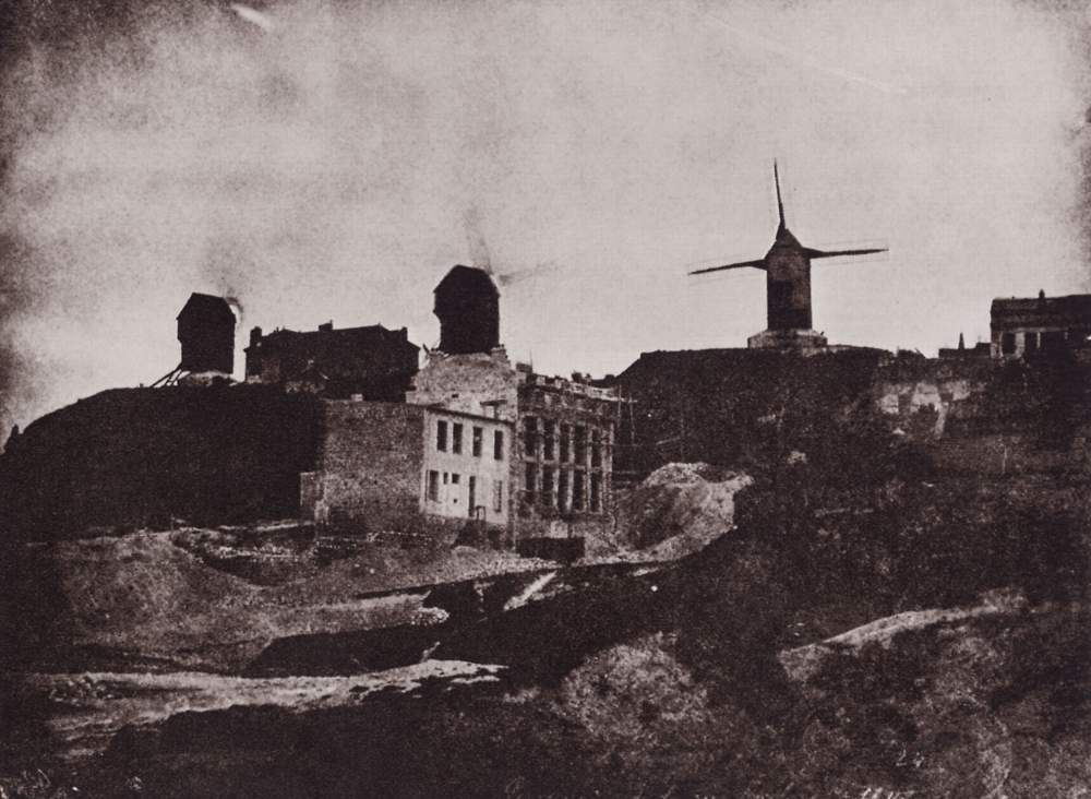 Hippolyte Bayard (1801–1887): Windmills, Montmartre c.1842